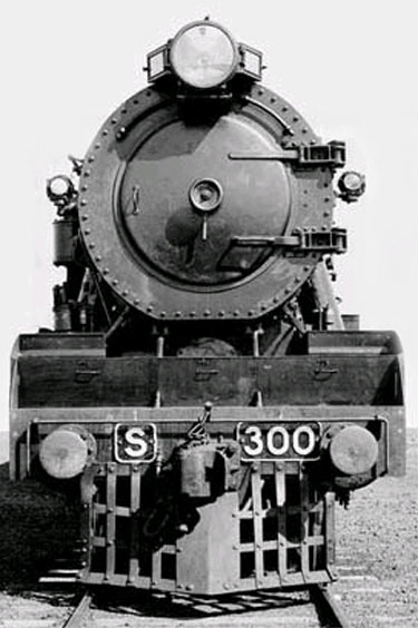 Builder's photo of Victorian Railways S class 4-6-2 locomotive No. S-300 in 1928.